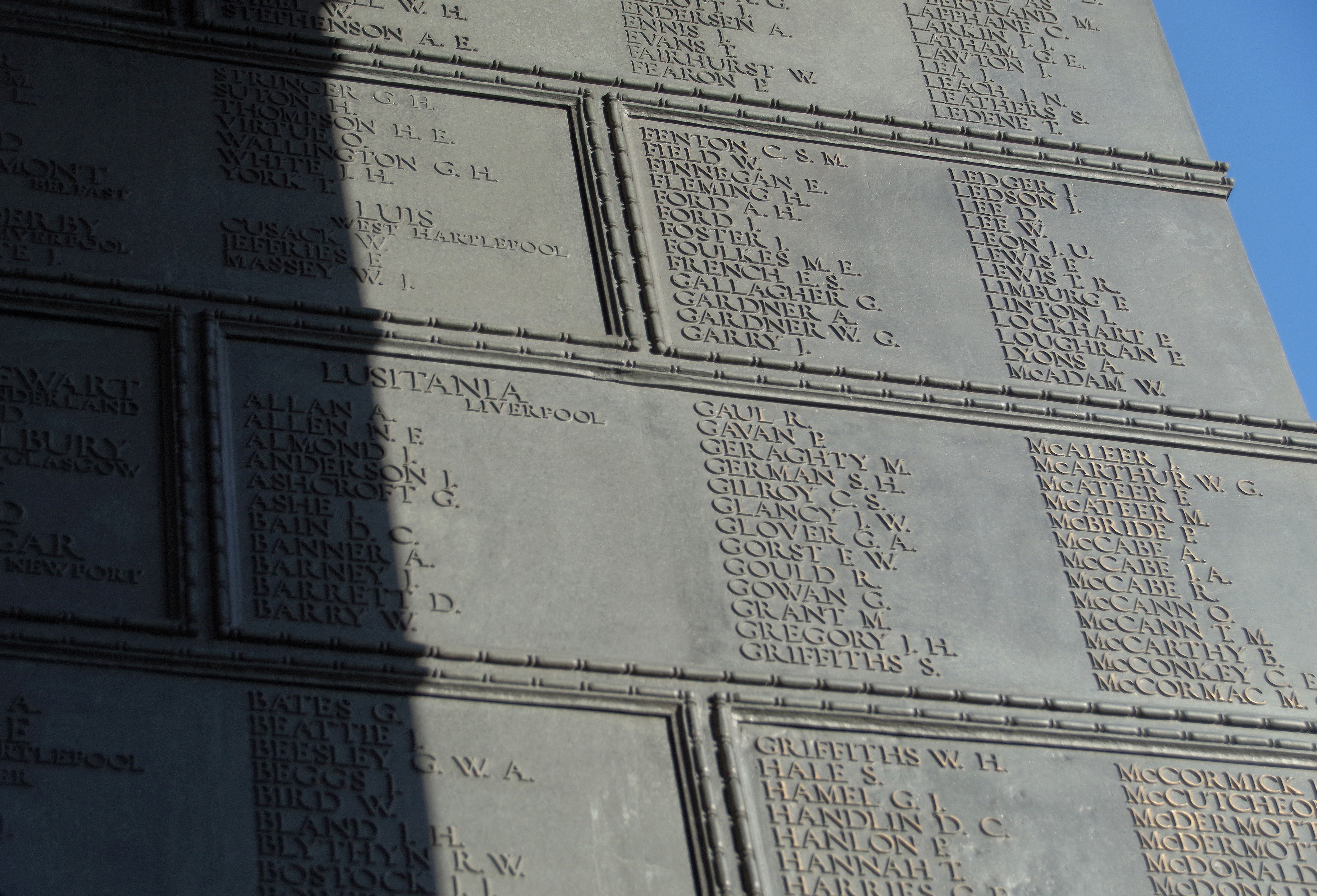 The Merchant Navy War Memorial in London. This is the First World War section, specifically the section for the Lusitania.